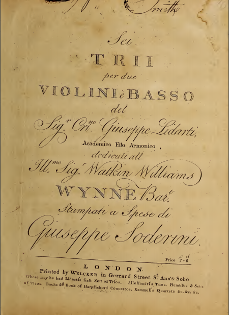 Front page of printed version of "Sei trii per due violini e basso", composed by Christian Joseph Lidarti and published by Welcker, London